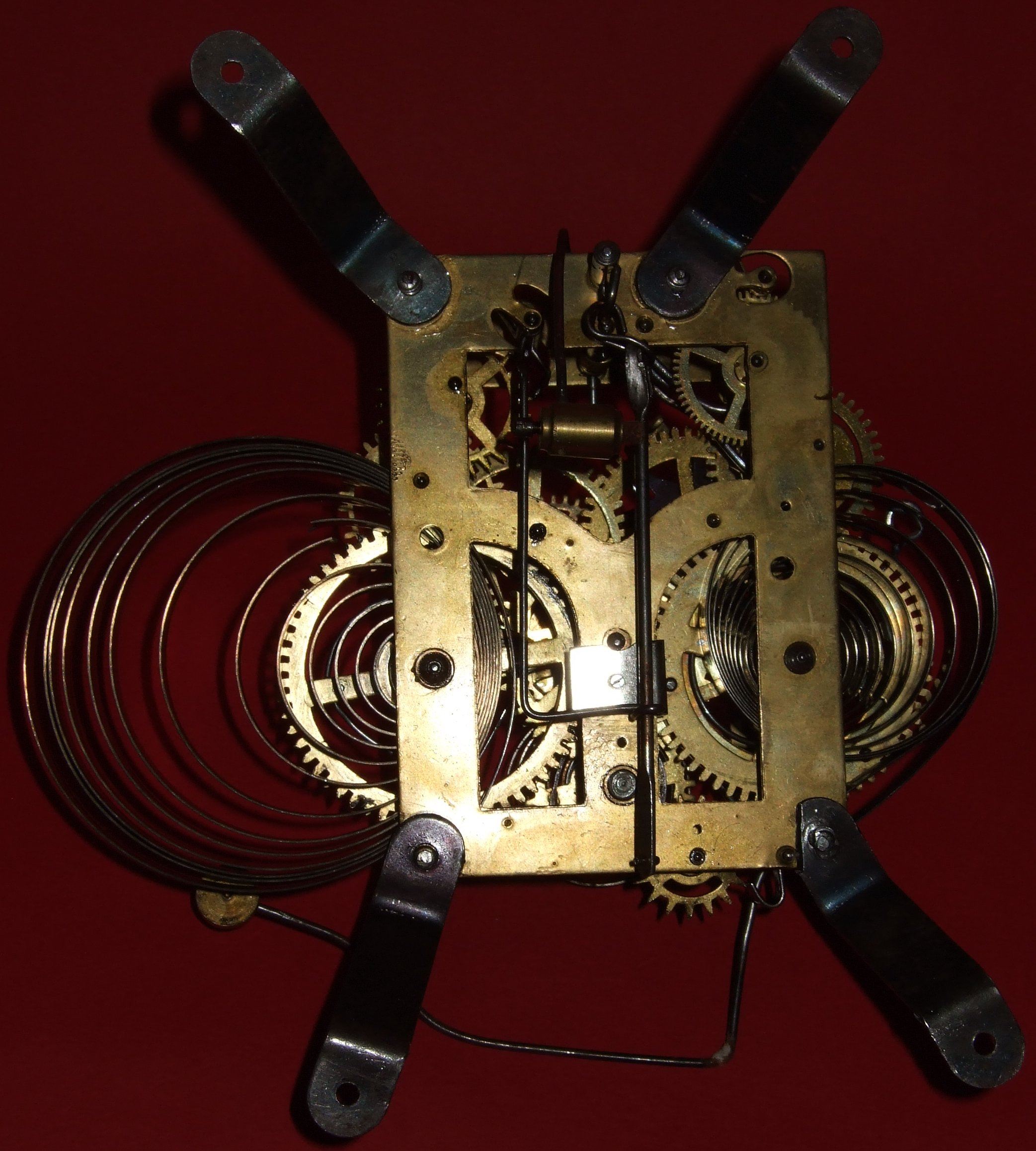 Clockwork with springs without housing. It is easy to see the spings laterally extending outside the clockwork itself.